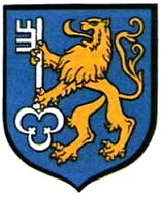 coat of arms of Skwierzyna